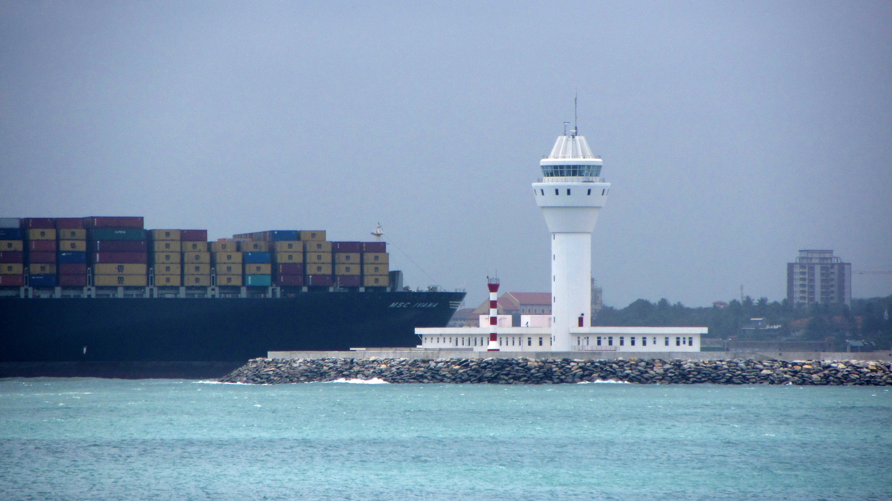 MSC Ivana at the Colombo Harbour.